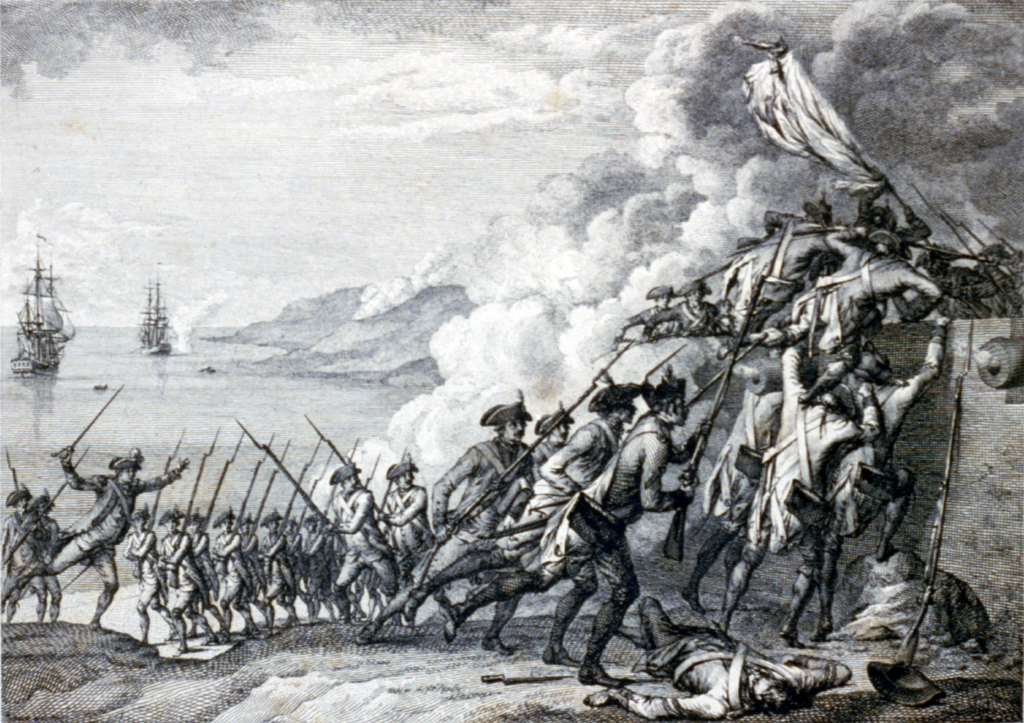 "Prise de la Dominique": Battle scene with French soldiers from frigates attacking on English garrison on Dominica, Winward Islands.